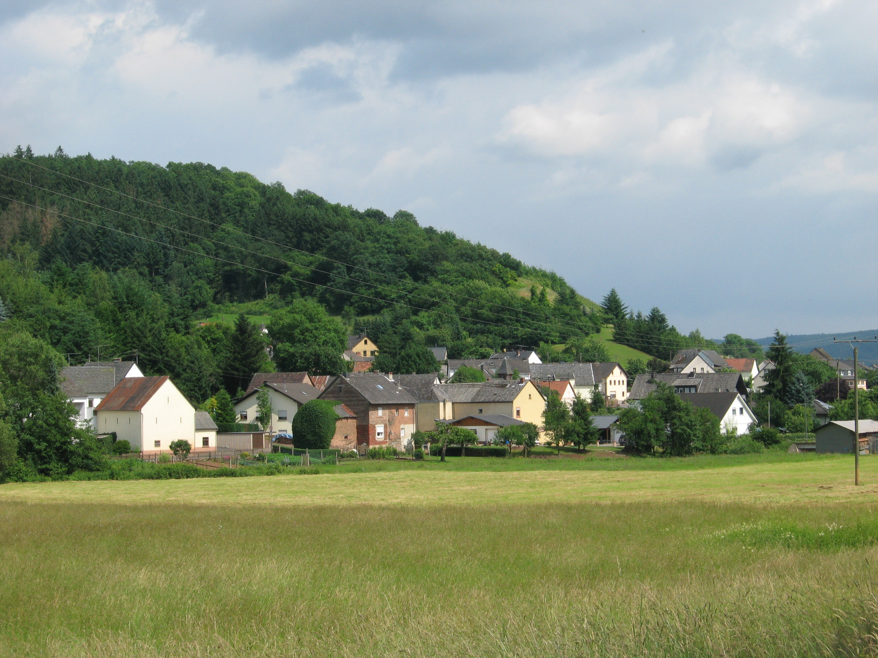 Olkenbach view